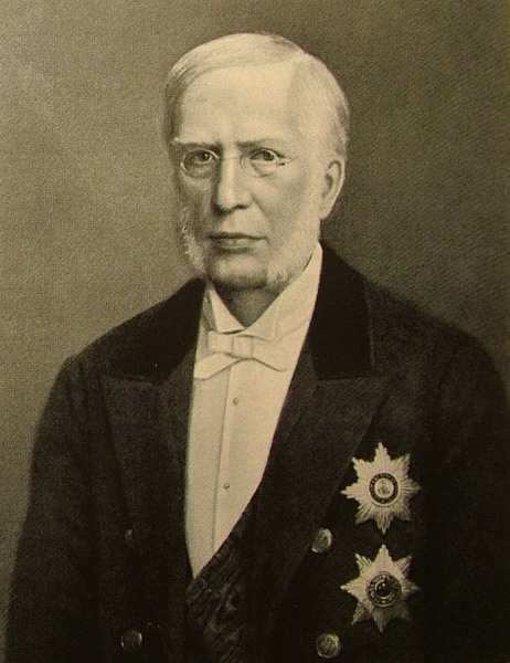 Vyshnegradsky Ivan (1831-1895) Ministr of Russia